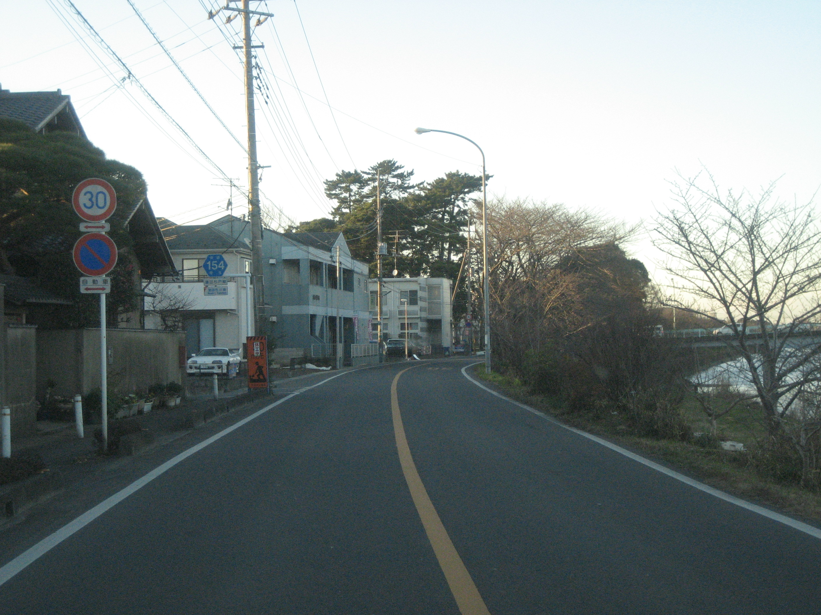 The Saitama Prefectural Road Route 154 in Hasuda City